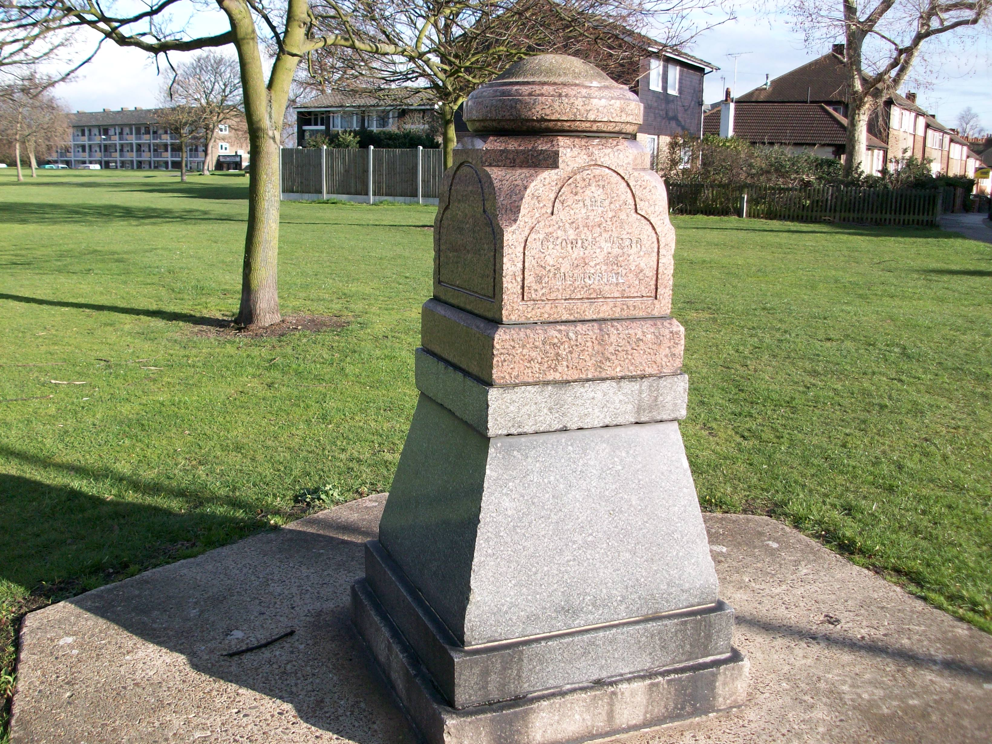 A photo of the George Webb Memorial Foutain